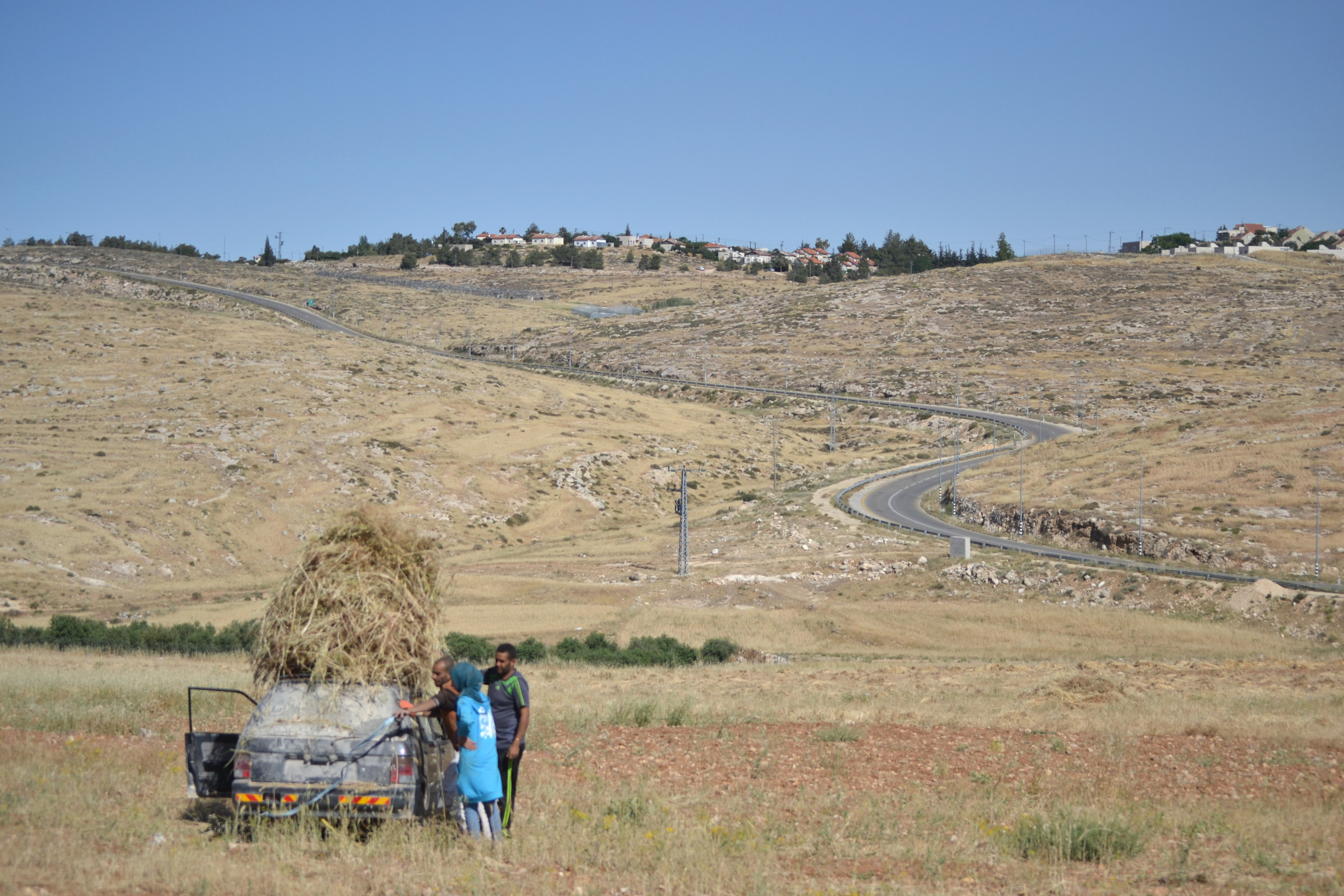 A family harvest their crops in the South Hebron Hills. Palestinians in this region must apply for permits in order to build in this area but only 1% of permits are granted, forcing people to build without permits and risk demolition. Rabbis for Human Rights help defend Palestinian communities in the area. (Photo: Eoghan Rice / Trócaire)